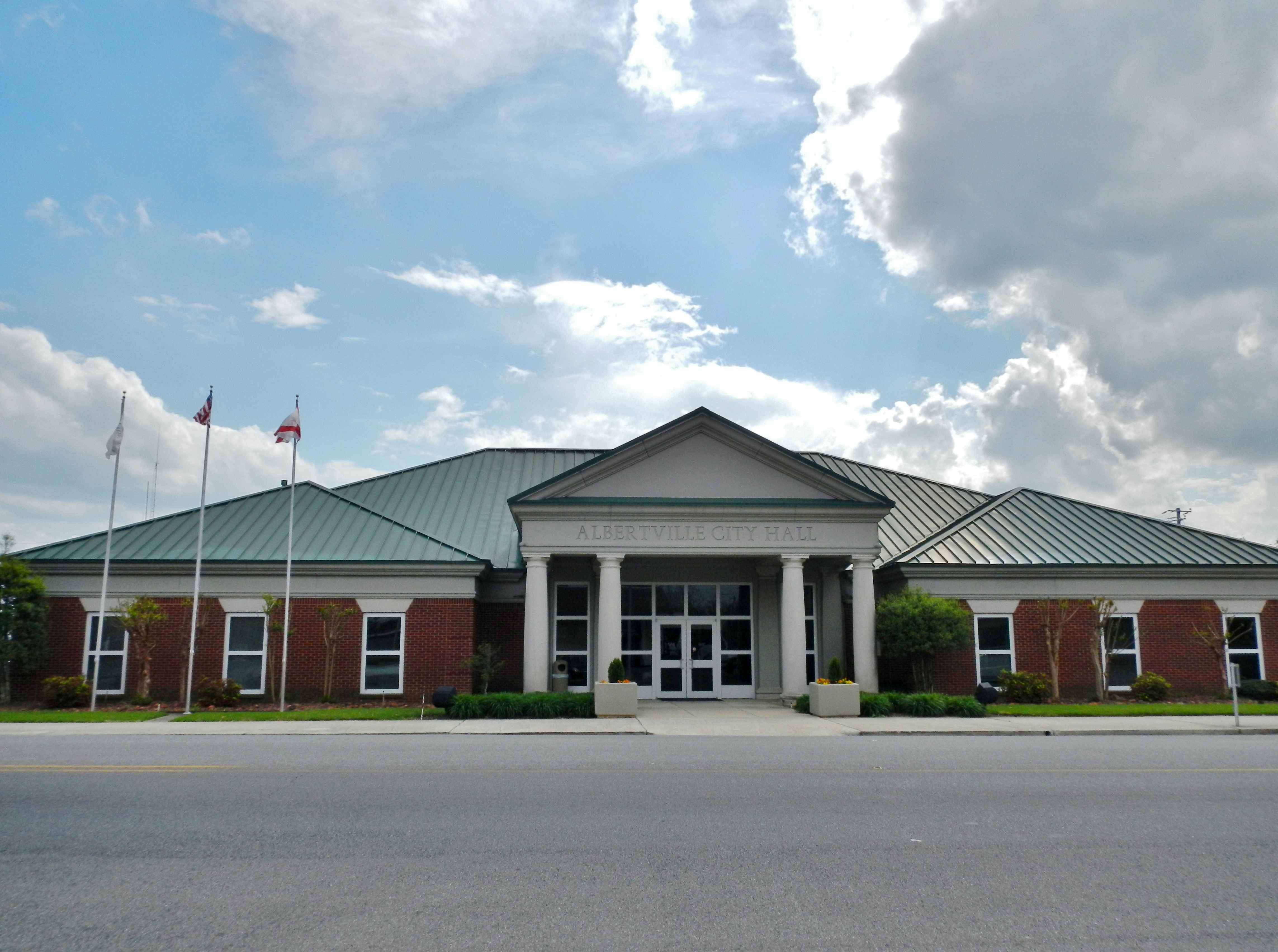 This is a photograph of the city hall in Albertville, Alabama.